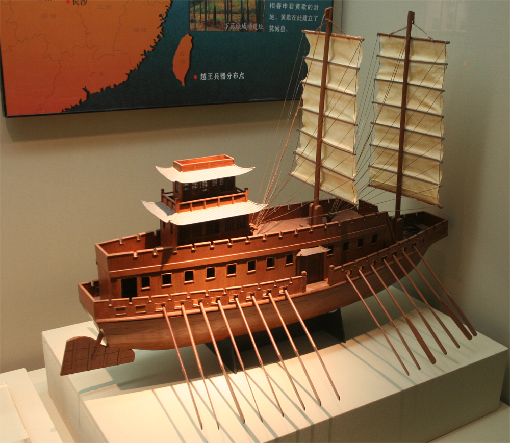 A model of a battleship used by the state of Yue during the Warring States period in China between 475 BCE to 221 BCE. From the Zhejiang Provincial Museum in Hangzhou, Zhejiang province, China.